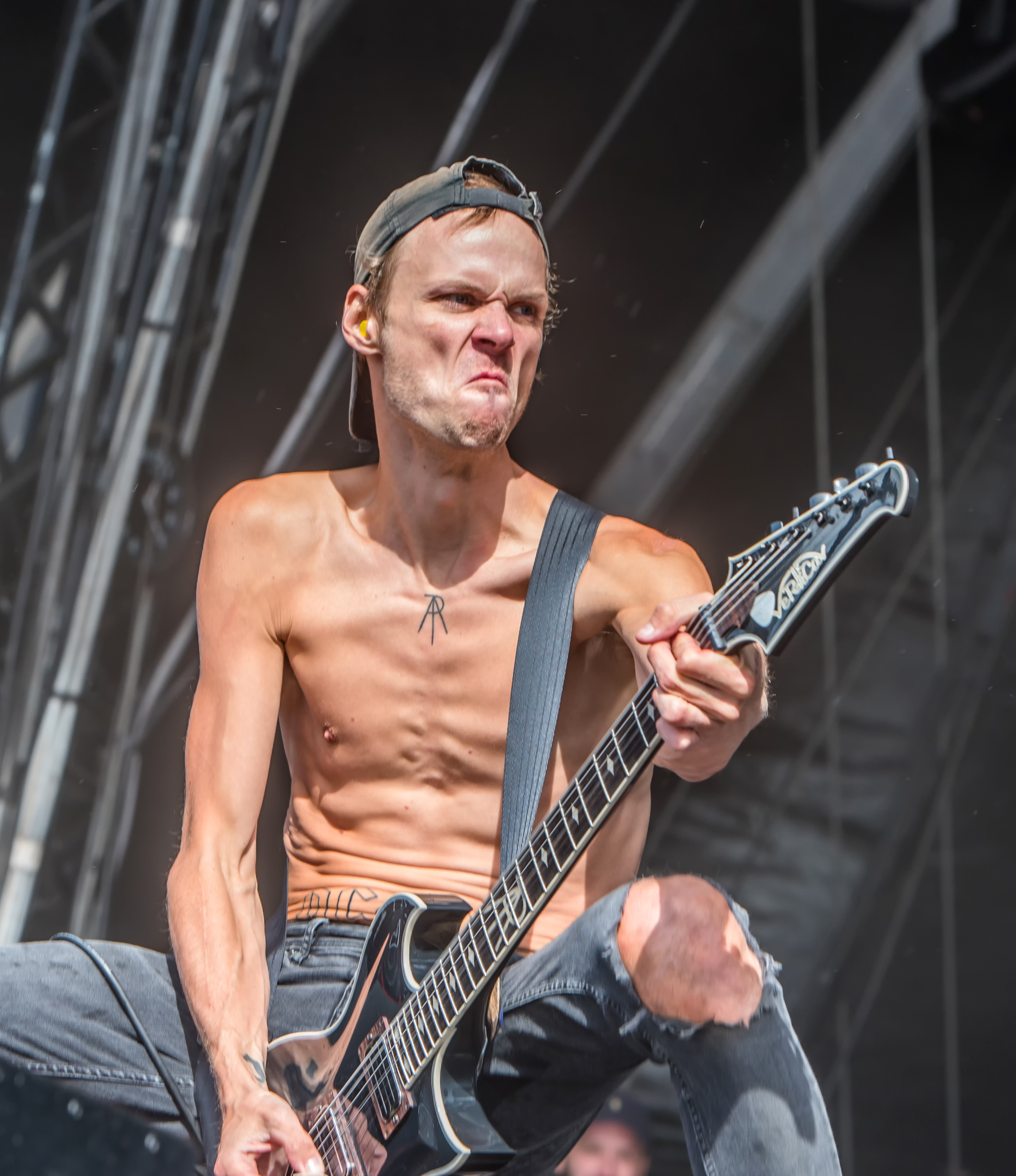 Mantar playing at Reload Festival 2018